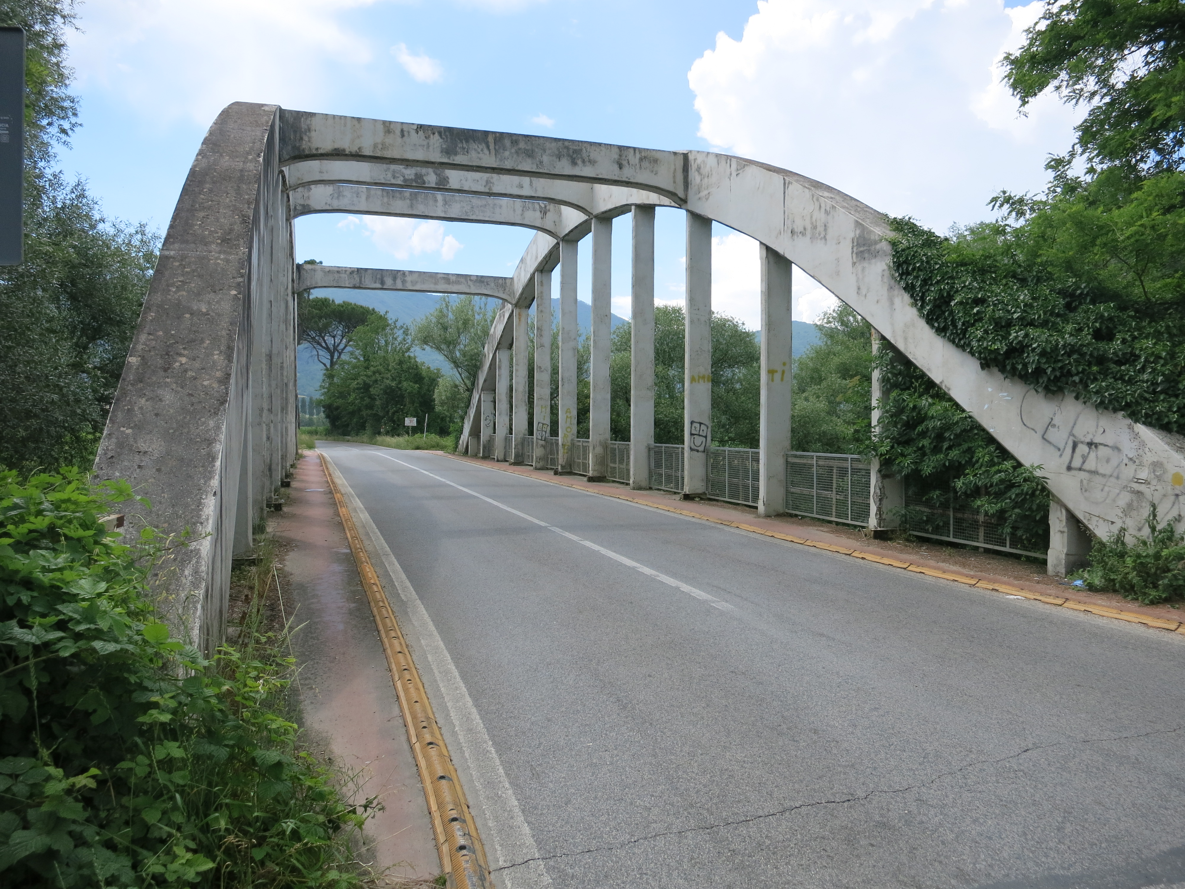 Bridge on the Velino river, part of provincial road n. 1 "Reopasto", located near Terria (village in the municipalty of Contigliano, province of Rieti). At both borders of the road there are reserved lanes for the Rieti plain bikeway.